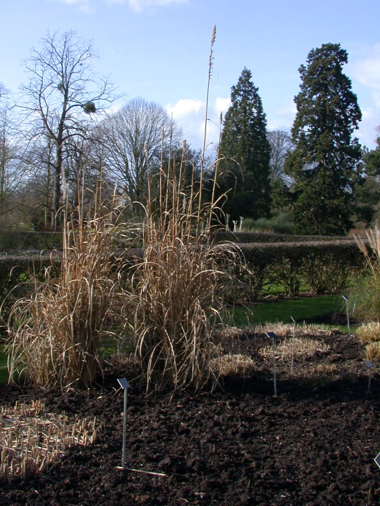 Specimen labelled: "Erianthus ravennae. Gramineae. Giant Woolly-Beard Grass. Mediterranean." Now classified as Saccharum.